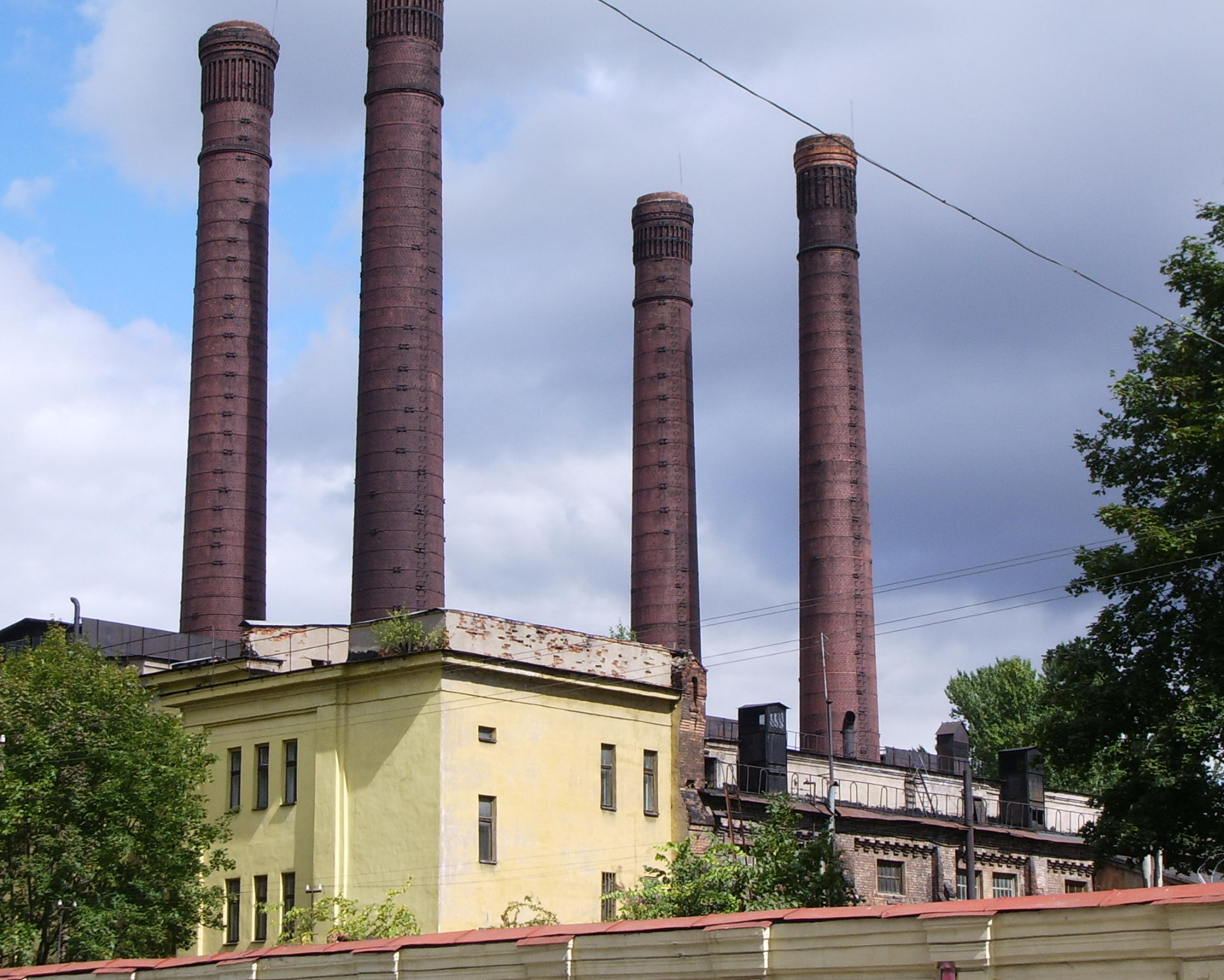 The power station # 3 of the jointed Central thermal power plant in St.-Petersburg. Established in 1898.